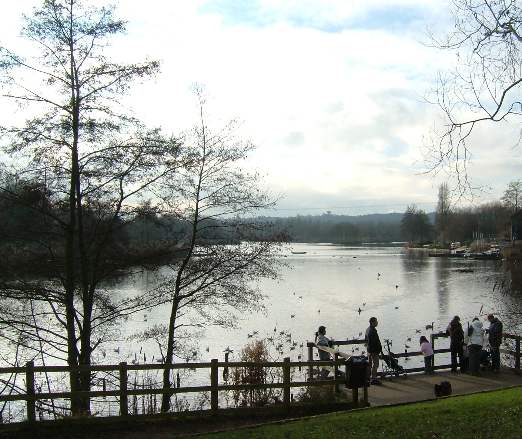 Arrow Valley Lake in Arrow Valley Park, Redditch, Worcestershire. Taken by DKJackson in December 2005. The Redditch Sailing Club building is visible on the right. The water tower in Headless Cross is visible on the horizon - this is a familiar Redditch landmark visible around the town.